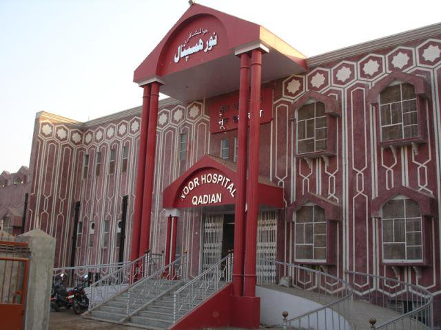 Hospital in Qadian town of Punjab